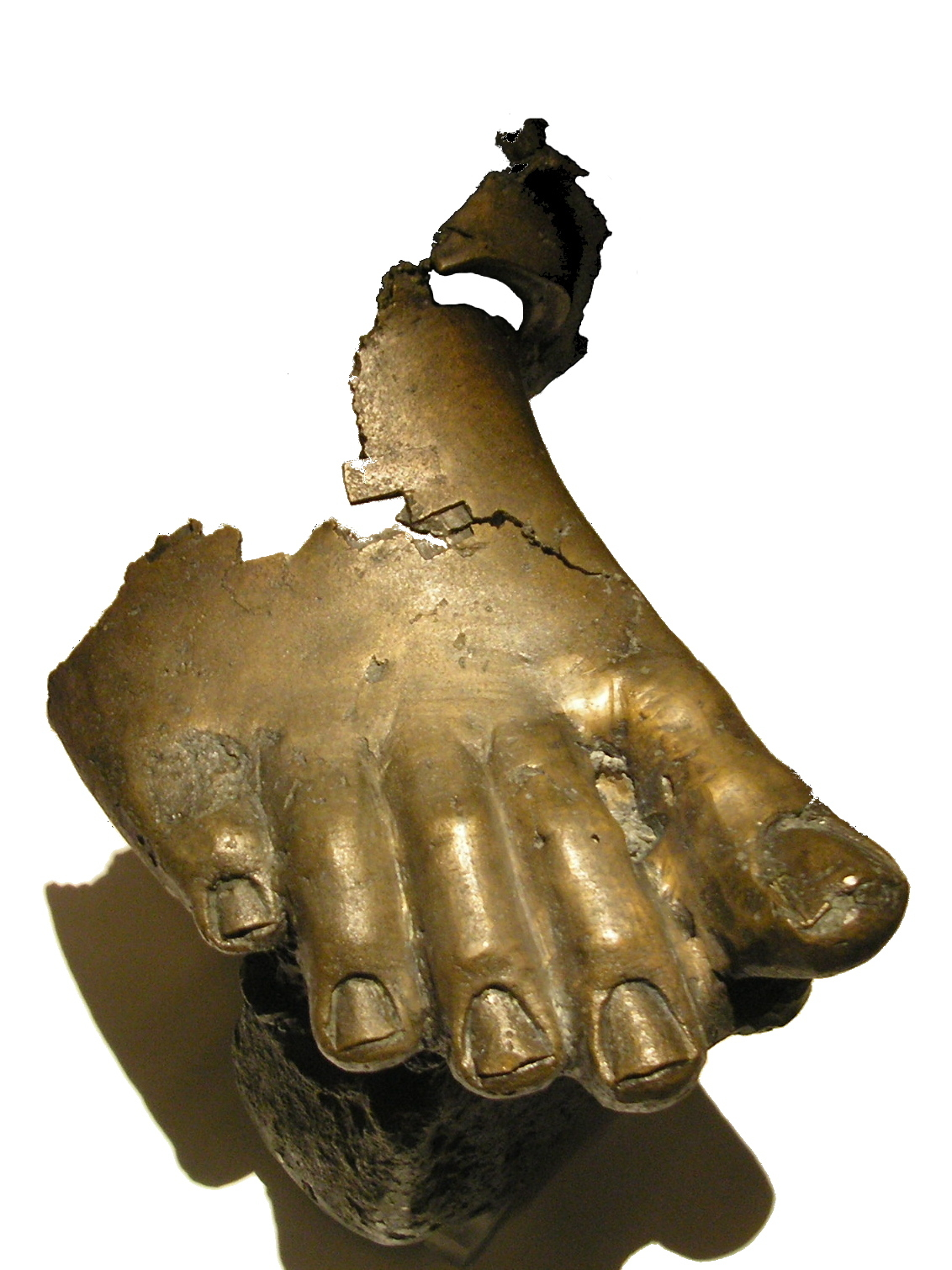 Foot and finger of bronze statues, 2nd/3rd century A.D. Both fragments had already been discovered during the construction of the Wiener Neustaedter canal in 18000 and 1849, respectively. They could have originated from statues of honour that were erected at the forum of Vindobona.